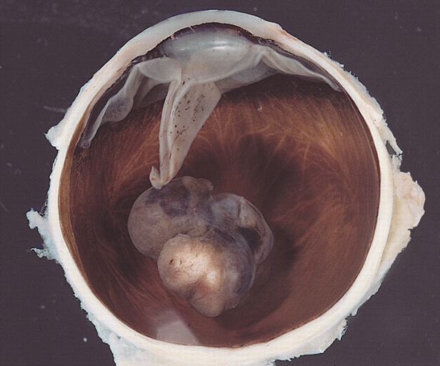 EYE AND OCULAR ADNEXA: MALIGNANT MELANOMA Variably pigmented, mushroom-shaped choroidal tumor has ruptured the Bruch membrane and grown into the subretinal space.